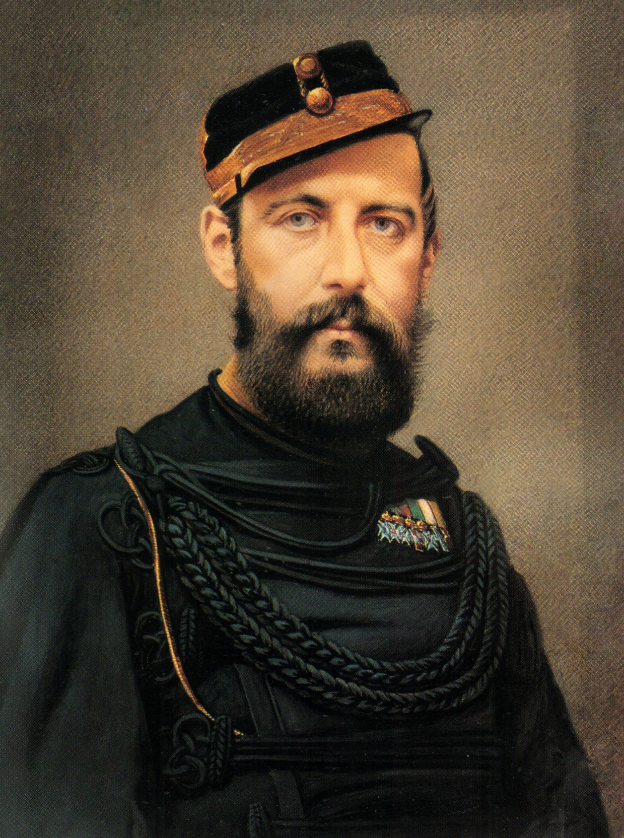 Charles XV in the mid 1860s